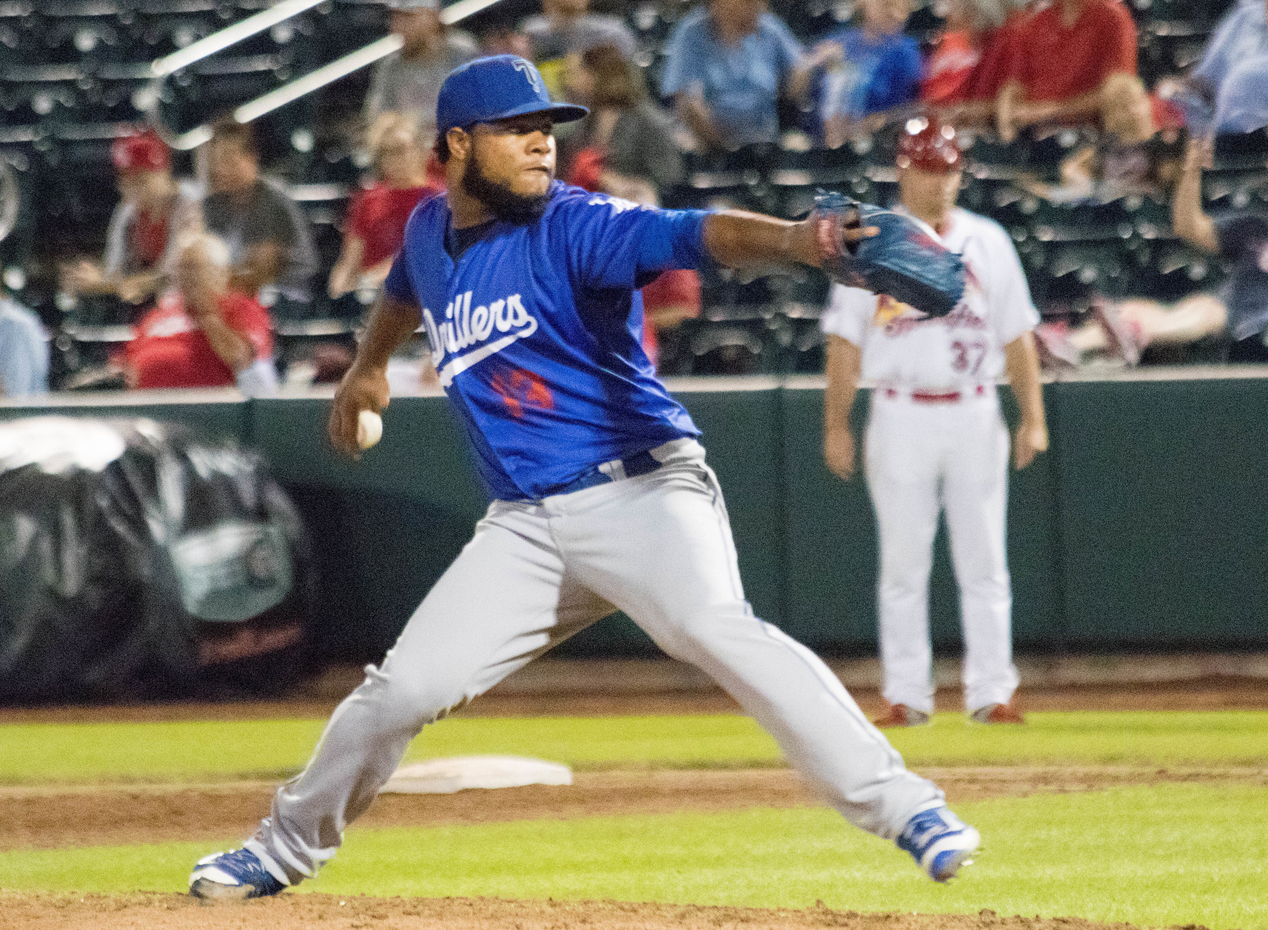 Daniel Corcino delivers a pitch for the Tulsa Drillers in a 2016 game.